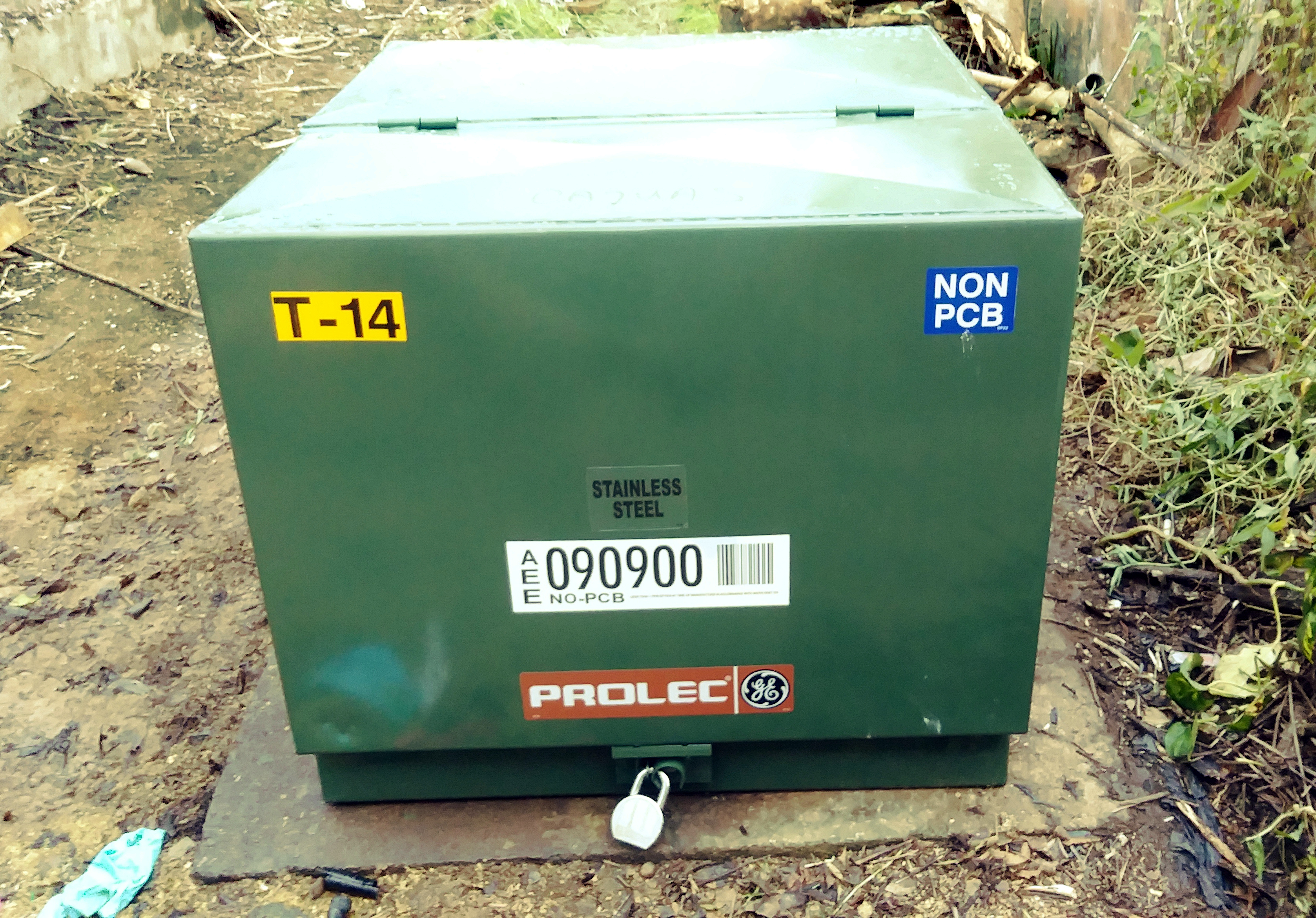 A new Prolec pad-mounted transformer in Caguas, Puerto Rico, replacing the old "pole type" one